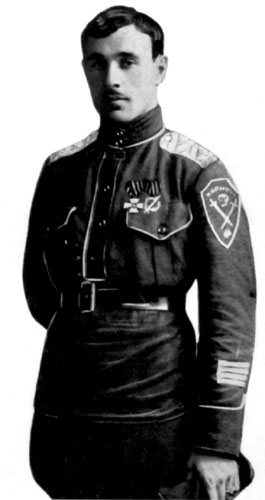 General Nikolai Skoblin, Russian White Army General, later in emigration in Paris secret agent of INO NKWD (Soviet secret services)